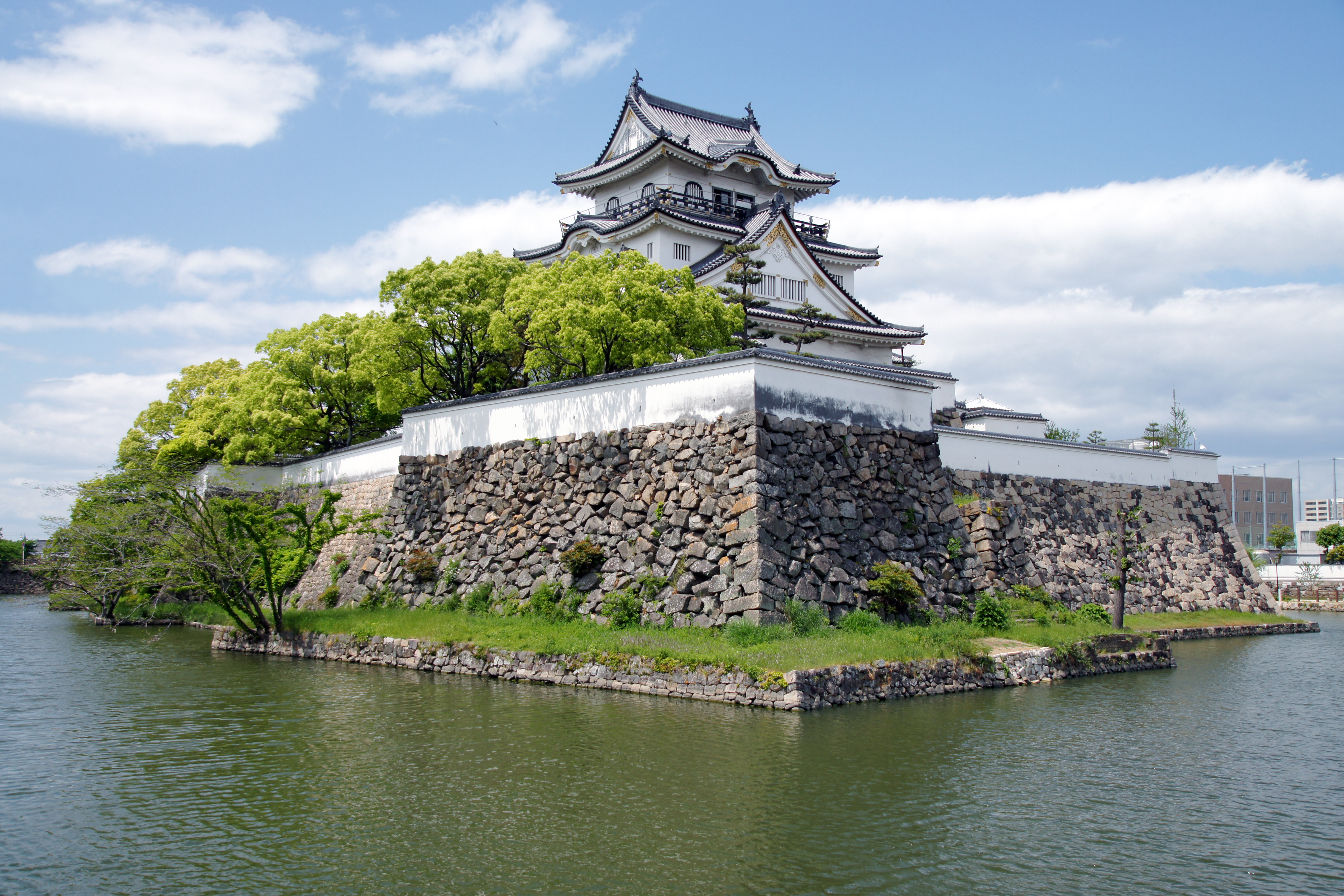 Kishiwada_Castle in Kishiwada, Osaka prefecture, Japan